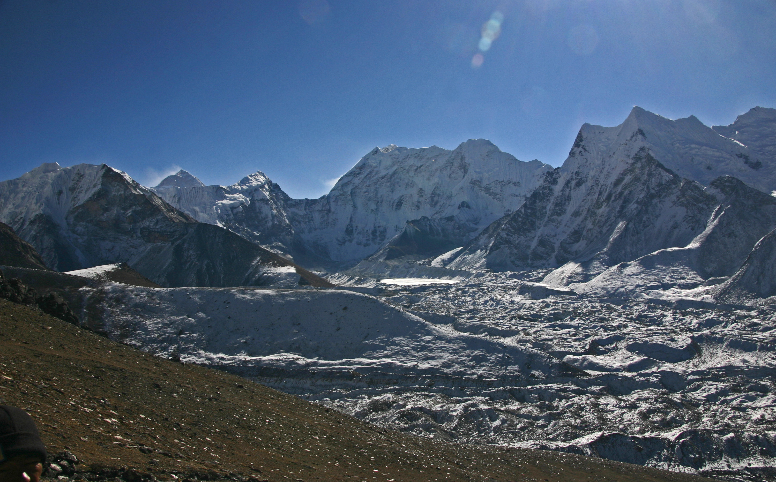 Climbing Chhukung Ri